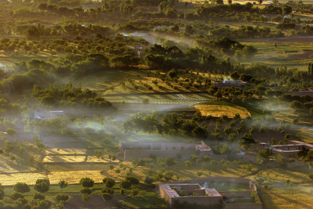 Smoke from early morning fires linger over wheat fields in Khas Oruzgan district, eastern Uruzgan province, June 20.